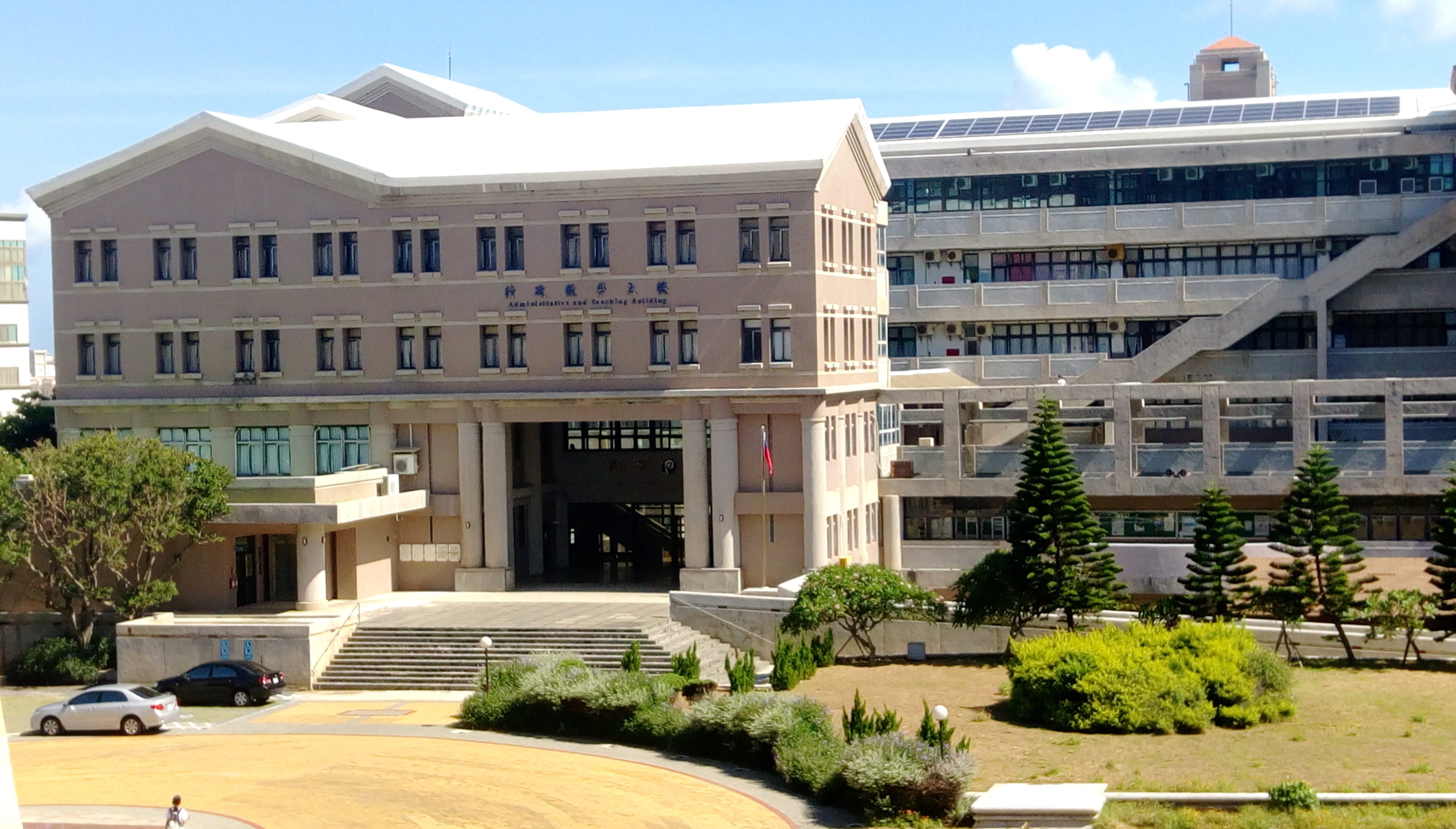 Administrative and Teaching Building, National Penghu University of Science and Technology.